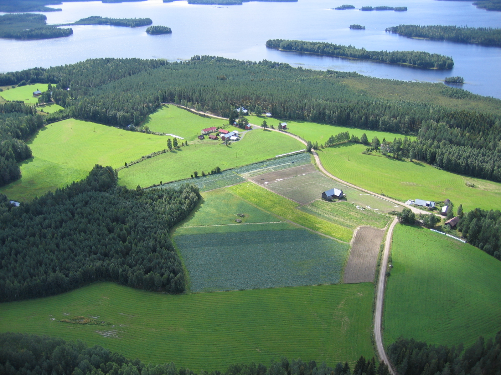 Aerial photograph of Enonlahti, Mäntyharju, Finland. Lake Enonvesi on the background.